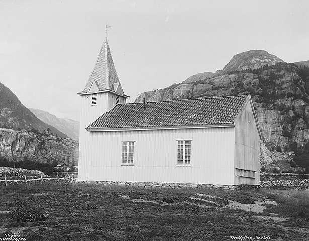 Nesflaten kapell from 1853 photographed in 1912.